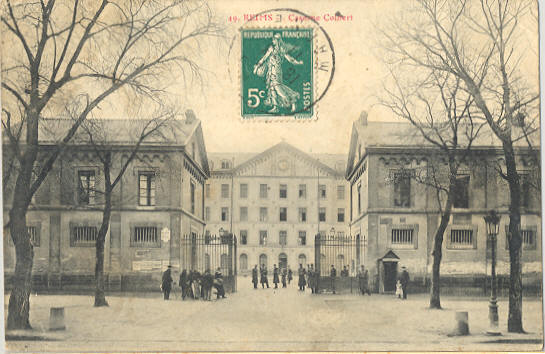 Caserne Colbert